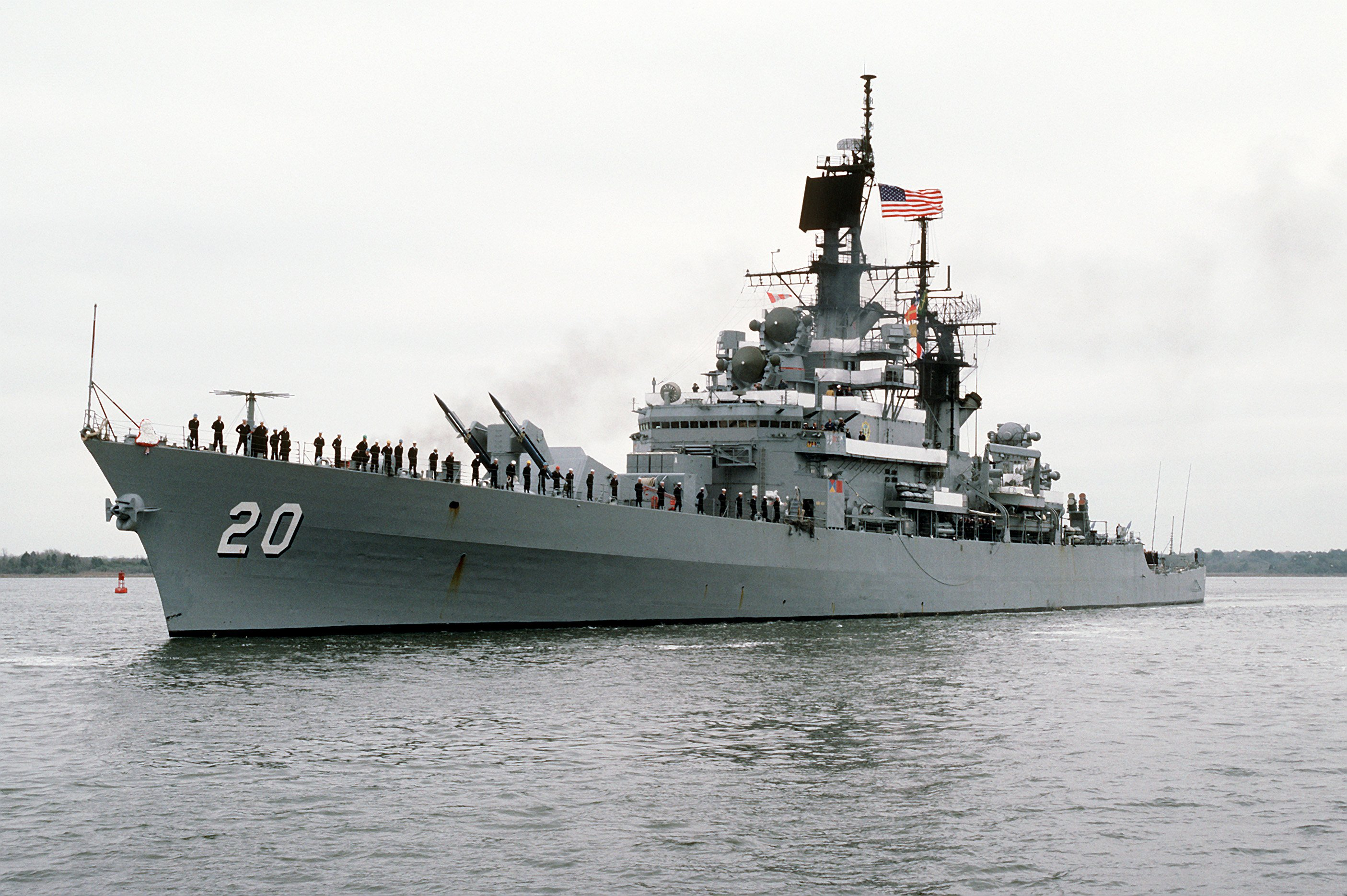 Crew members man the rails aboard the U.S. Navy guided missile cruiser USS Richmond K. Turner (CG-20) upon its return to Charleston, South Carolina (USA), on 22 March 1988, after a six-month deployment in the Persian Gulf.